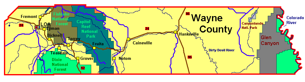 Wayne County (UT) Details; selfmade graphic by R.Blauert Dk4hb